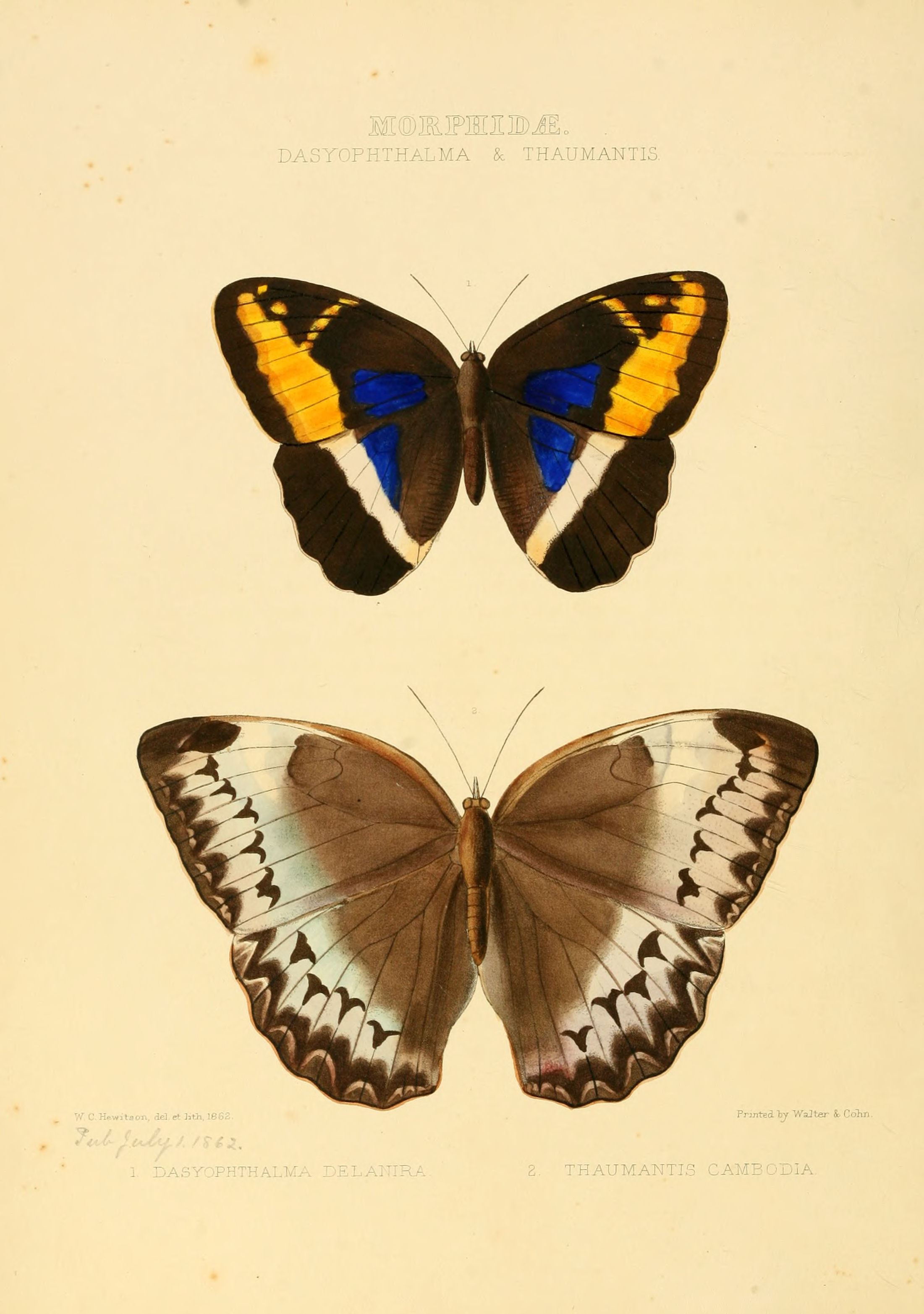 Plate: Dasyophthalma & Thaumantis Dasyophthalma delanira. Fig. 1. Accepted as Dasyophthalma rusina (Godart, 1824). Thaumantis cambodia. Fig. 2. Accepted as Stichophthalma cambodia (Hewitson, 1862).